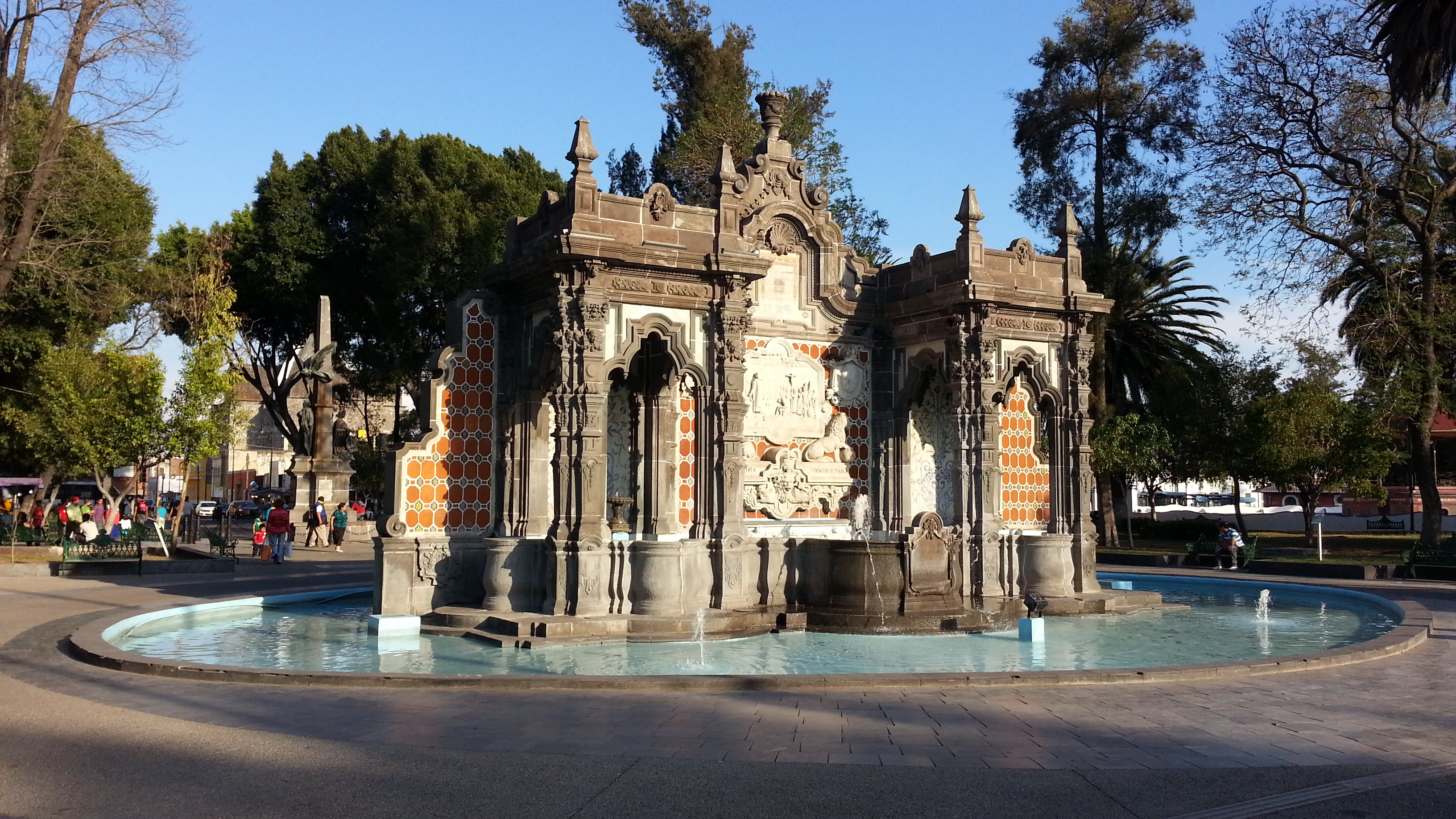 Fountain at the Monument for Toribio de Benavente − Motolinía, the founder of the City of Puebla in the 1520s. On Paseo de la Independencia (Paseo Bravo) in the city, in Puebla state.